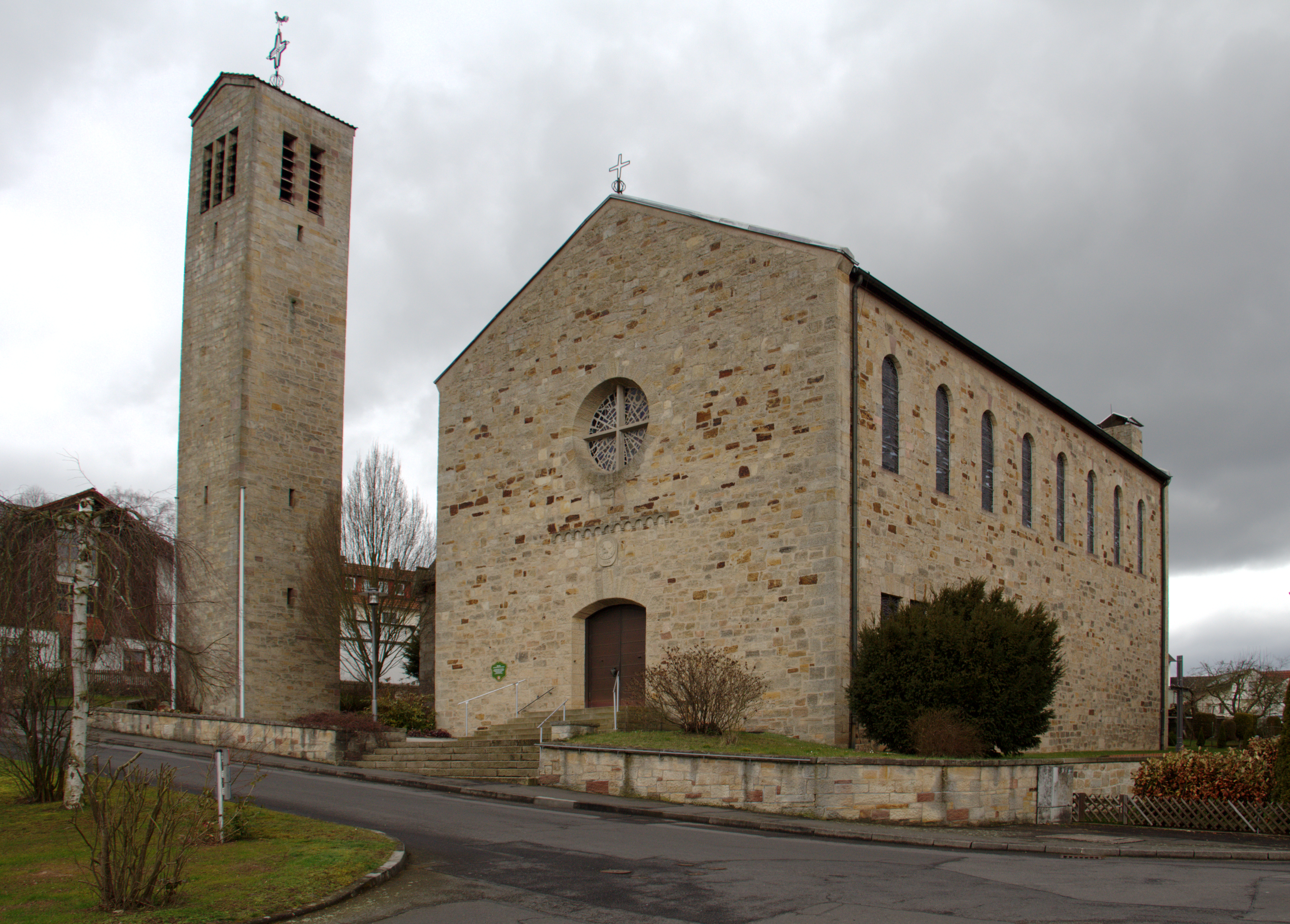 Catholic Church St. Nikolaus and Valentin, in Steinau, Petersberg, Hesse, Germany